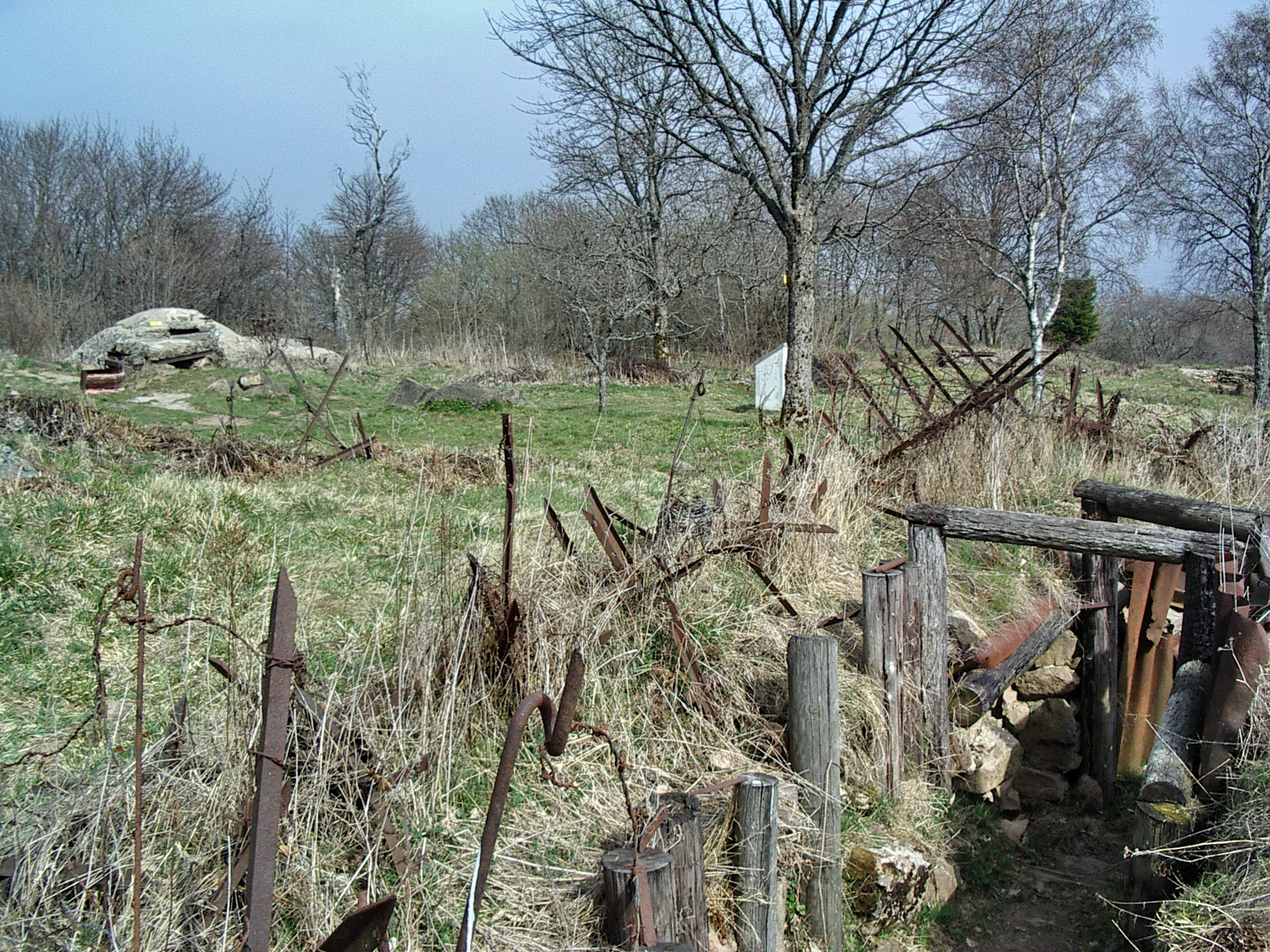 Hartmannswillerkopf battle field (WWI), french trench and german "Feste Dora", Alsace, France